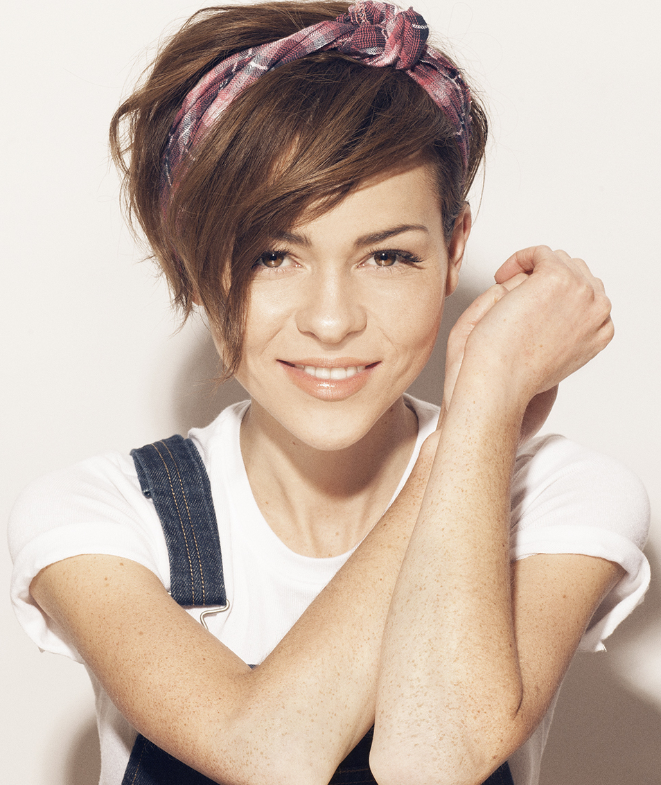 Taken in Los Angeles during the Spring of 2016.